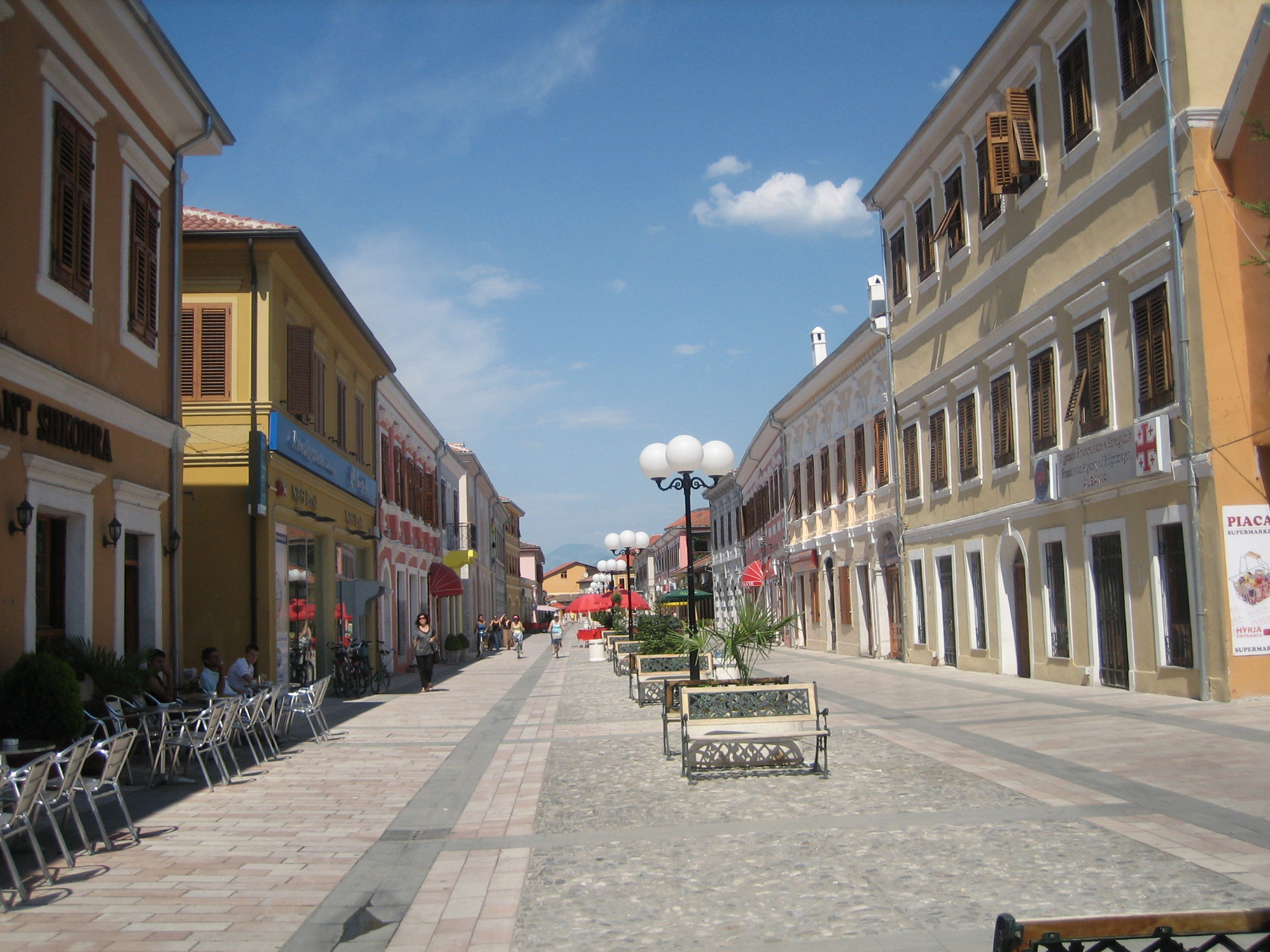 Pedestrian Rruga Kolë Idromeno in Shkodër, Albania